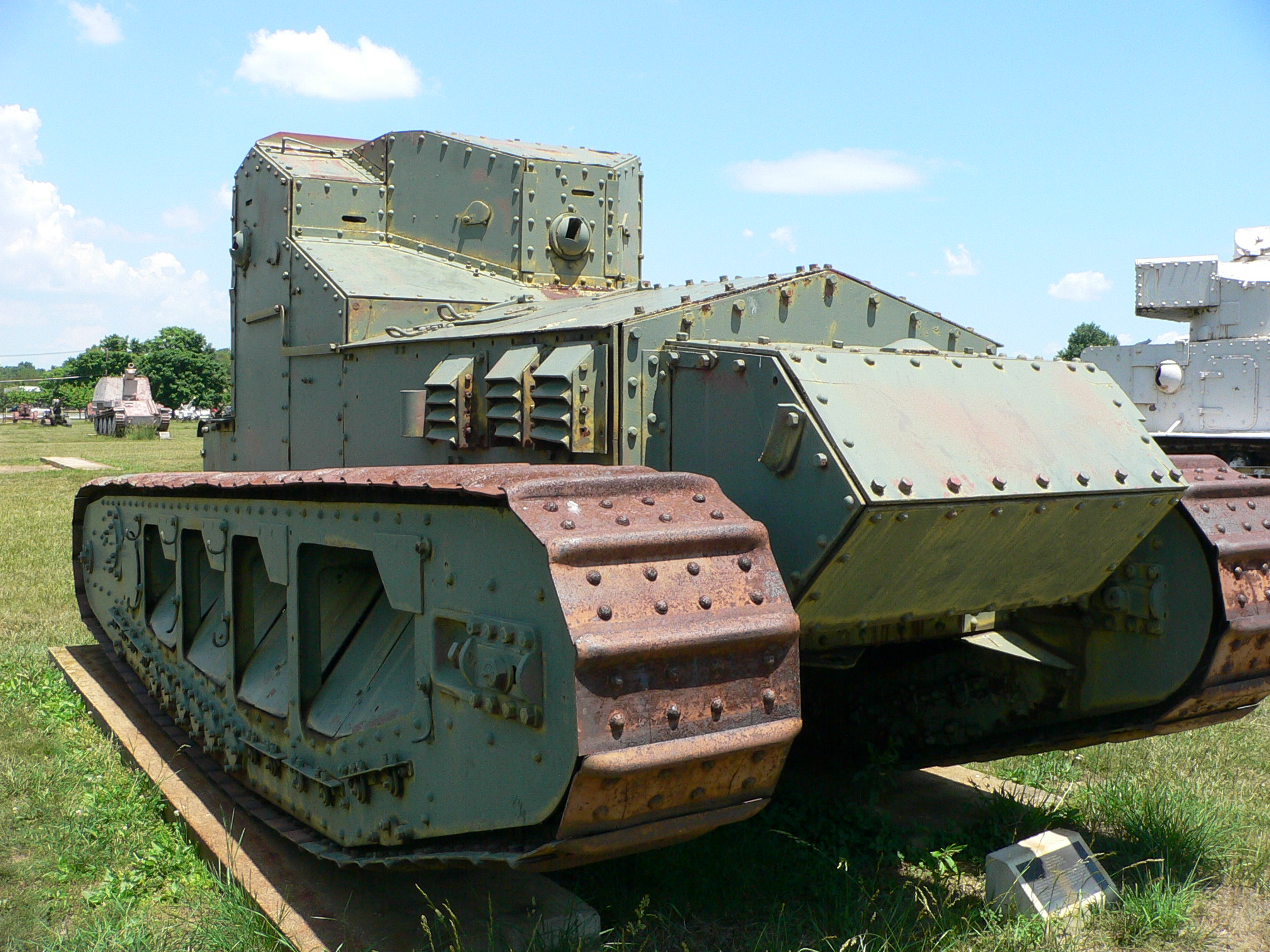 Picture taken by myself, Mark Pellegrini, at the United States Army Ordnance Museum (Aberdeen Proving Ground, MD) on June 12, 2007.